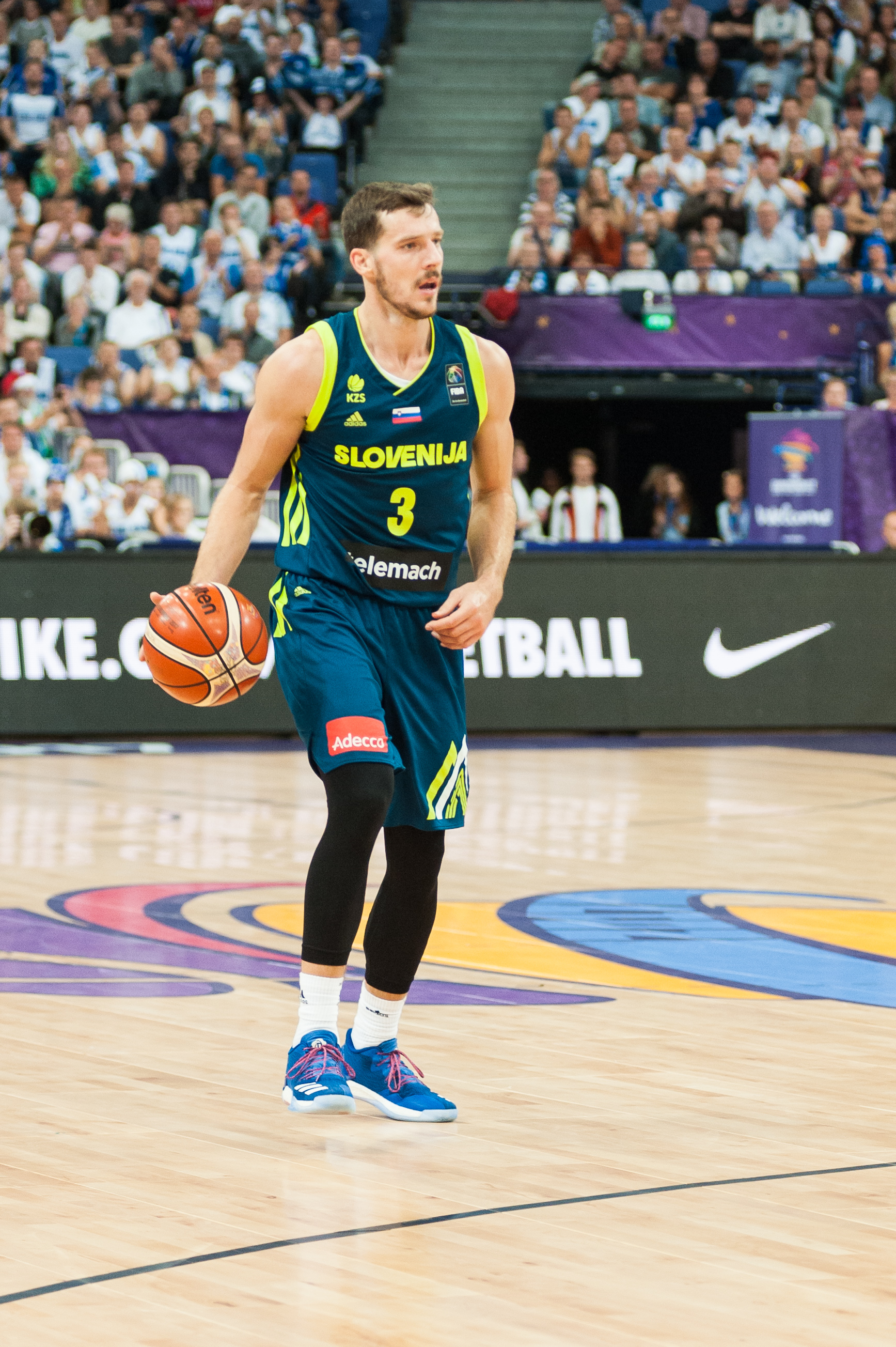 EuroBasket 2017 Group A game between Finland and Slovenia at Hartwall Arena in Helsinki, Finland.